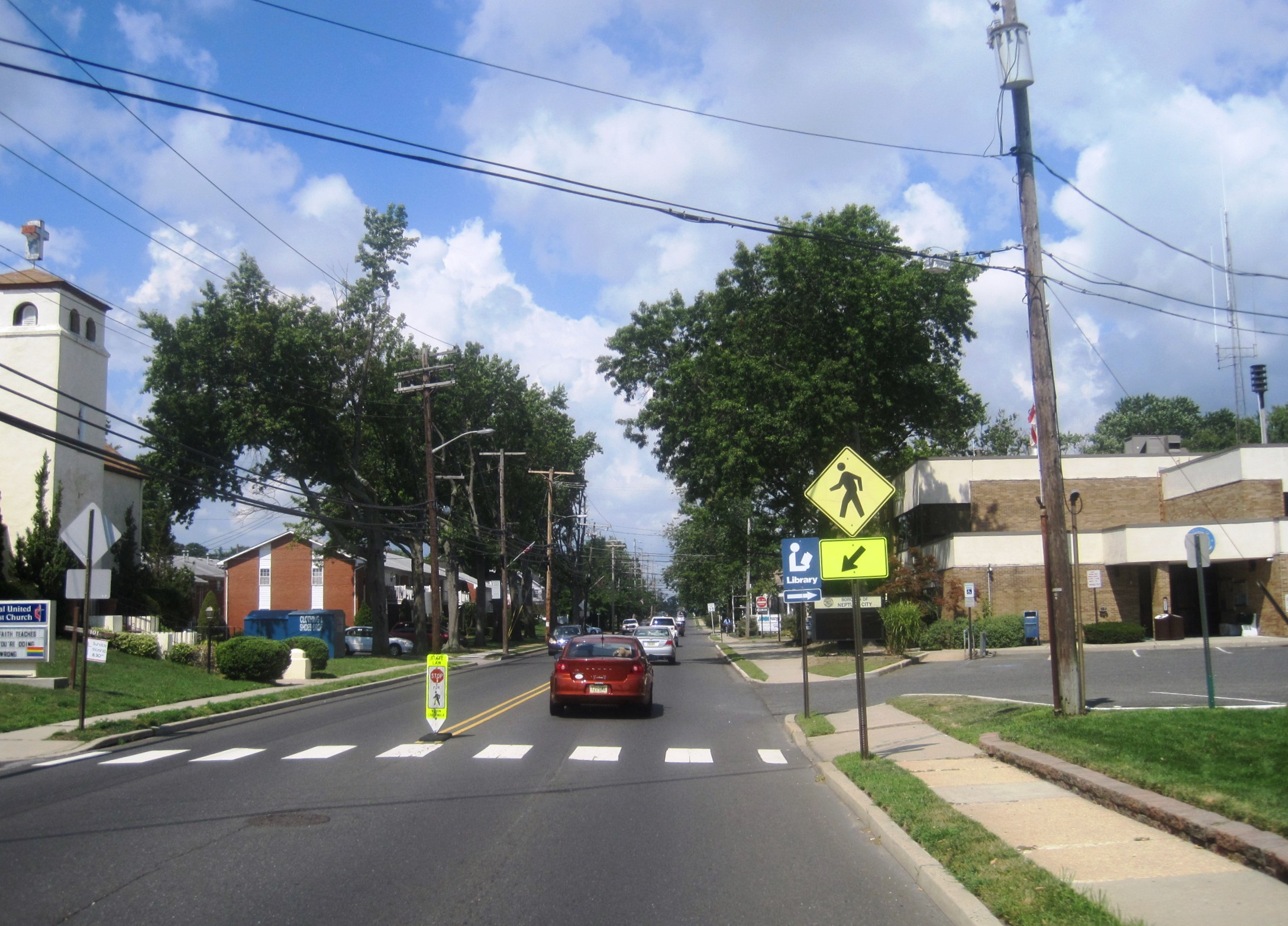 Photo showing the center of Neptune City, New Jersey. Photo taken along westbound Sylvania Avenue (County Route 17) at Lipman Avenue.